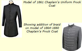 Photo of 1861 frock coat with graphic enhancement of 1864 frock coat that included braid. Background info from website: Per the 1861 US Army Regulations, a single breasted Officer's frockcoat made in 19 ounce BLACK WOOL and having a black cotton lining. By US Regulations the buttons are covered with black cloth also. According to US Regulations, Chaplains did not wear shoulder boards during this period. In 1864, the Army Uniform Board enhanced the Chaplain's Frock coat with the addition of "herringbone" braid in black across the chest at the buttons and buttonholes. Note that the buttons are still black. This coat was used by Army Chaplains until 1880.